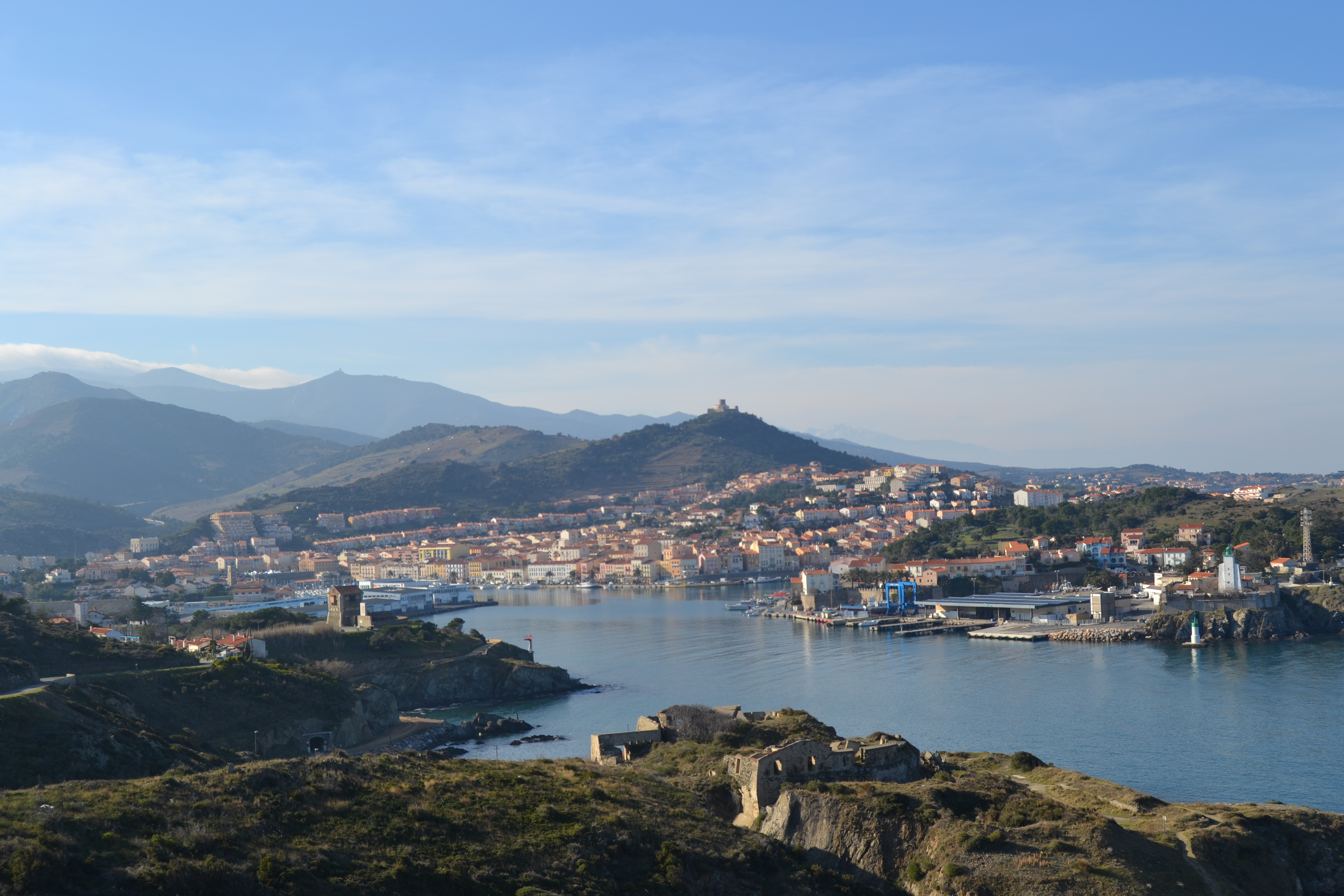 Port-Vendres, a french village